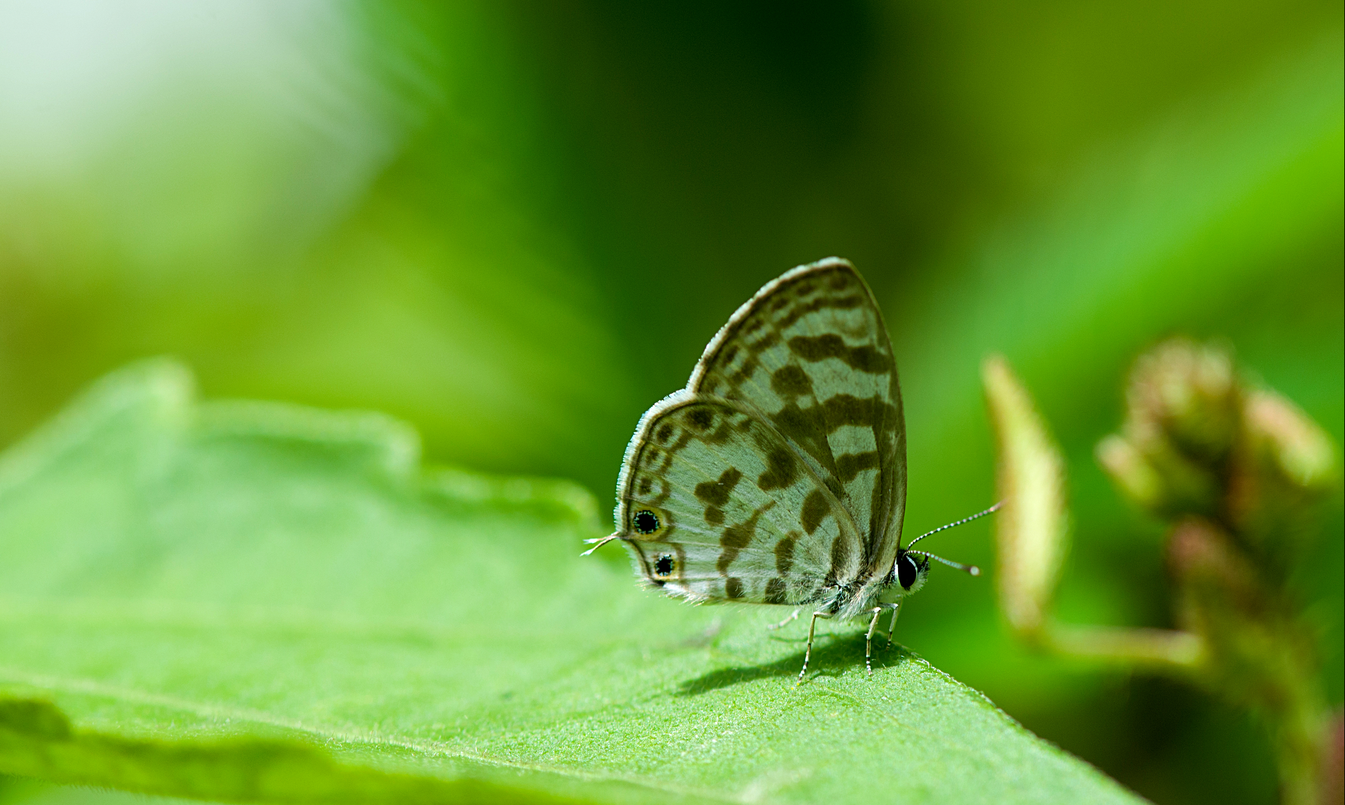 Aberration of Zebra Blue (Leptotes plinius) butterfly. The color and textures of the patterns are seen totally different from its common form.